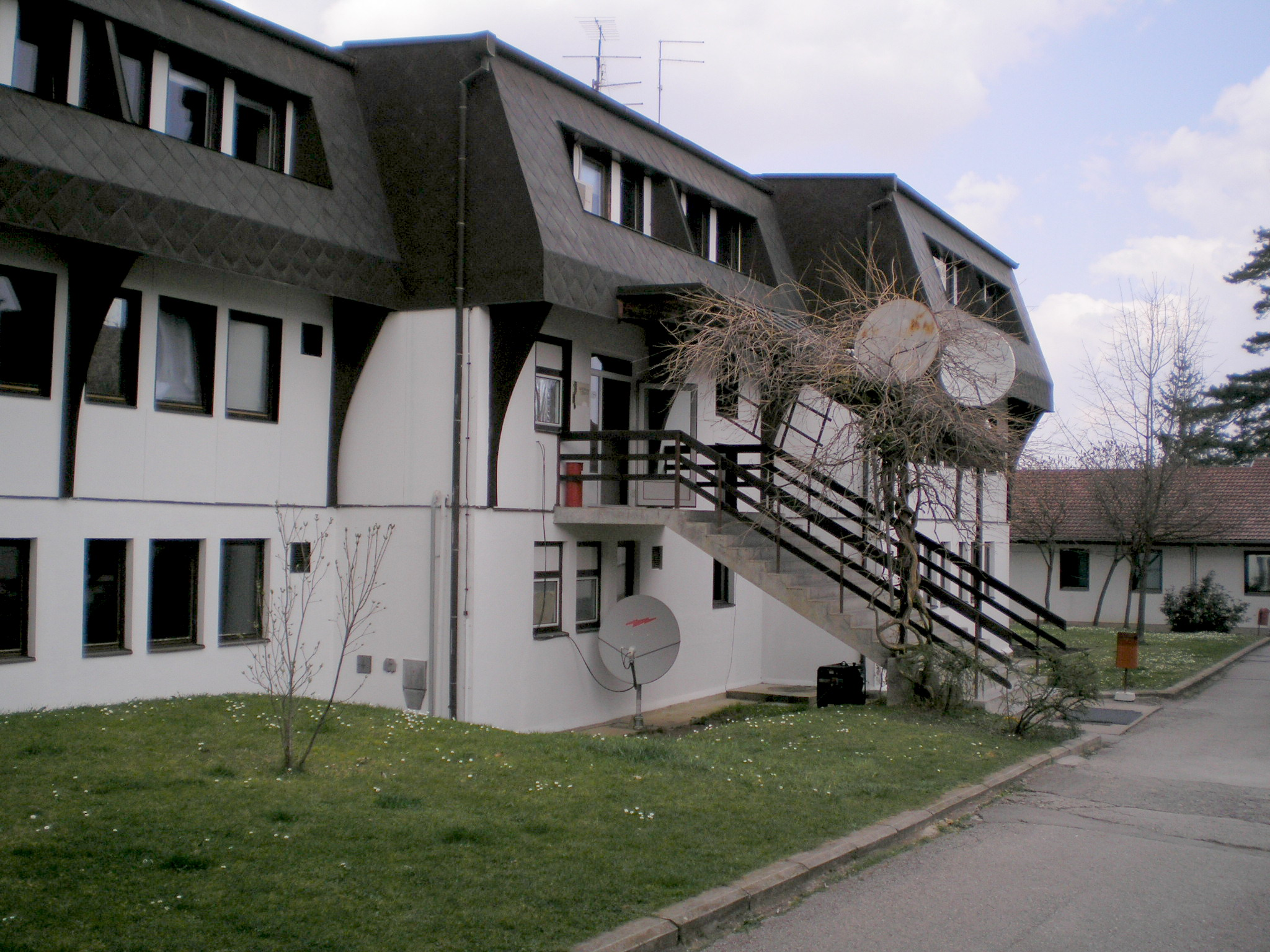 Petnica Science Centre near Valjevo, Serbia